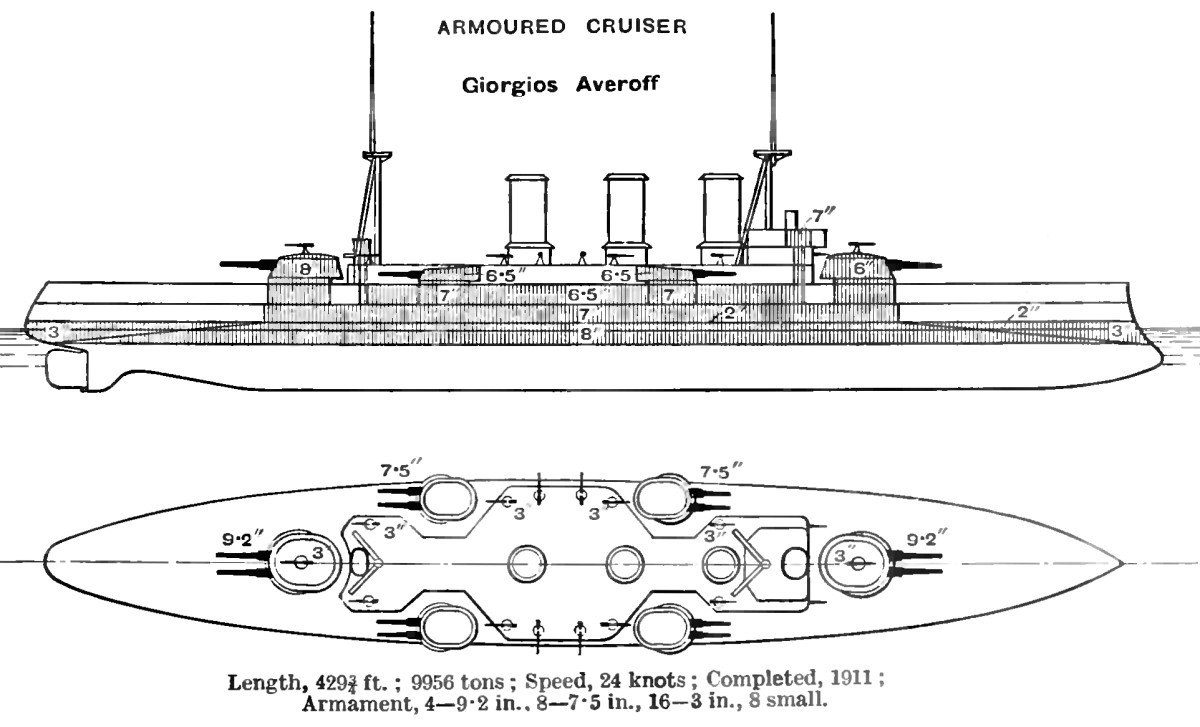 Right elevation and deck plan diagrams depicting Greek armoured cruiser Giorgios Averoff. Top diagram shows armour thickness in inches. Bottom diagram shows gun sizes in inches.